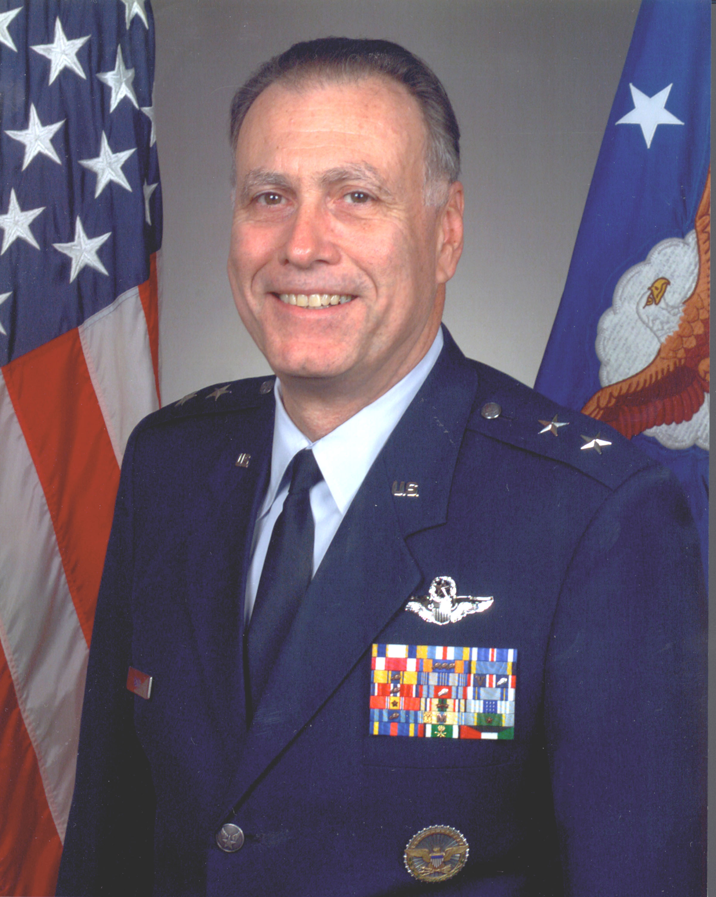 Ronald Bath from [1]